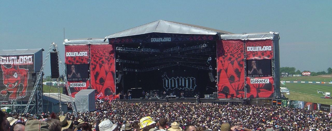 Down, fronted by ex-Pantera vocalist Phil Anselmo were out early on the main stage. In his own words, he'd woken up that morning, smoked a joint, downed some vodka and came on stage.